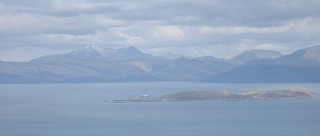 The Colonsay ferry behind Eileach an Naoimh View from Cruach na Seilcheig on Jura with Mull and Ben More beyond.